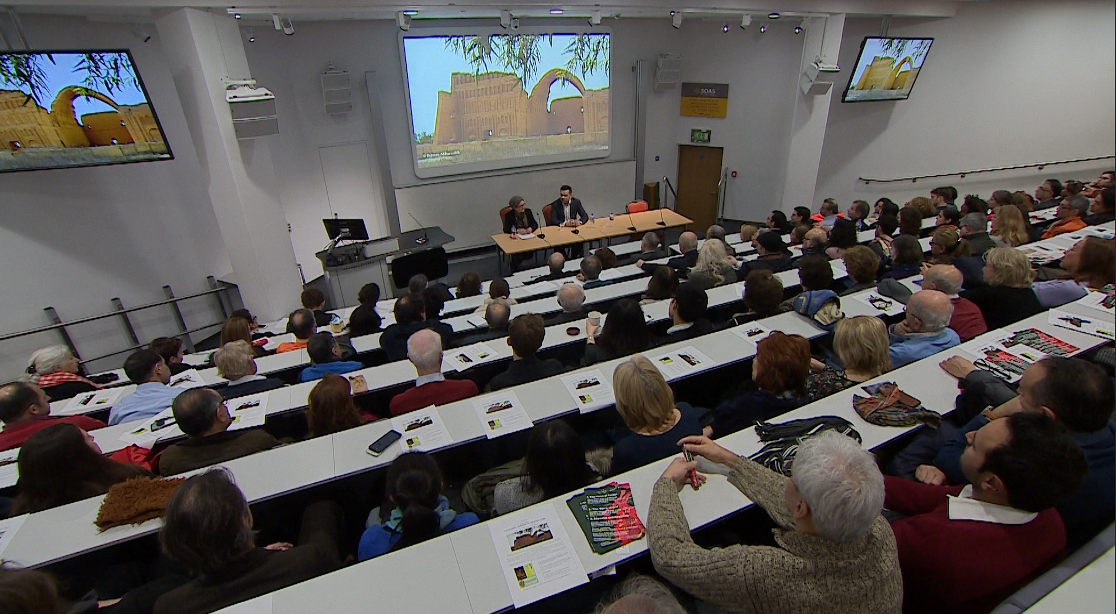 World Premiere of the documentary film "Taq Kasra: Wonder of Architecture" at SOAS, University of London, 1 Feb 2018 -- The premiere was organized by the London Middle East Institute (LMEI) -- Photo by Persian Dutch Network